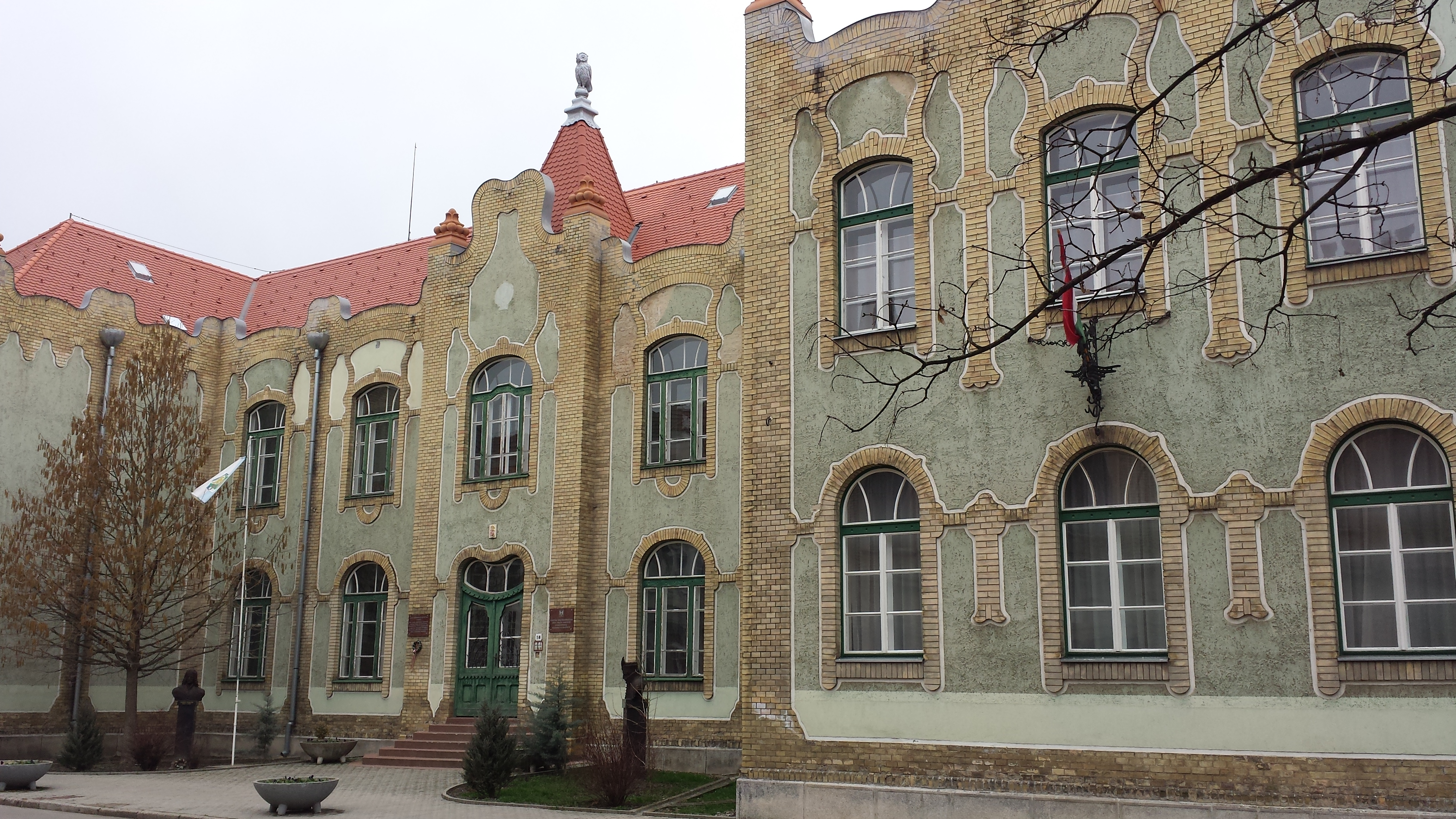 School building Art Nouveau in Szigetvár, Hungary